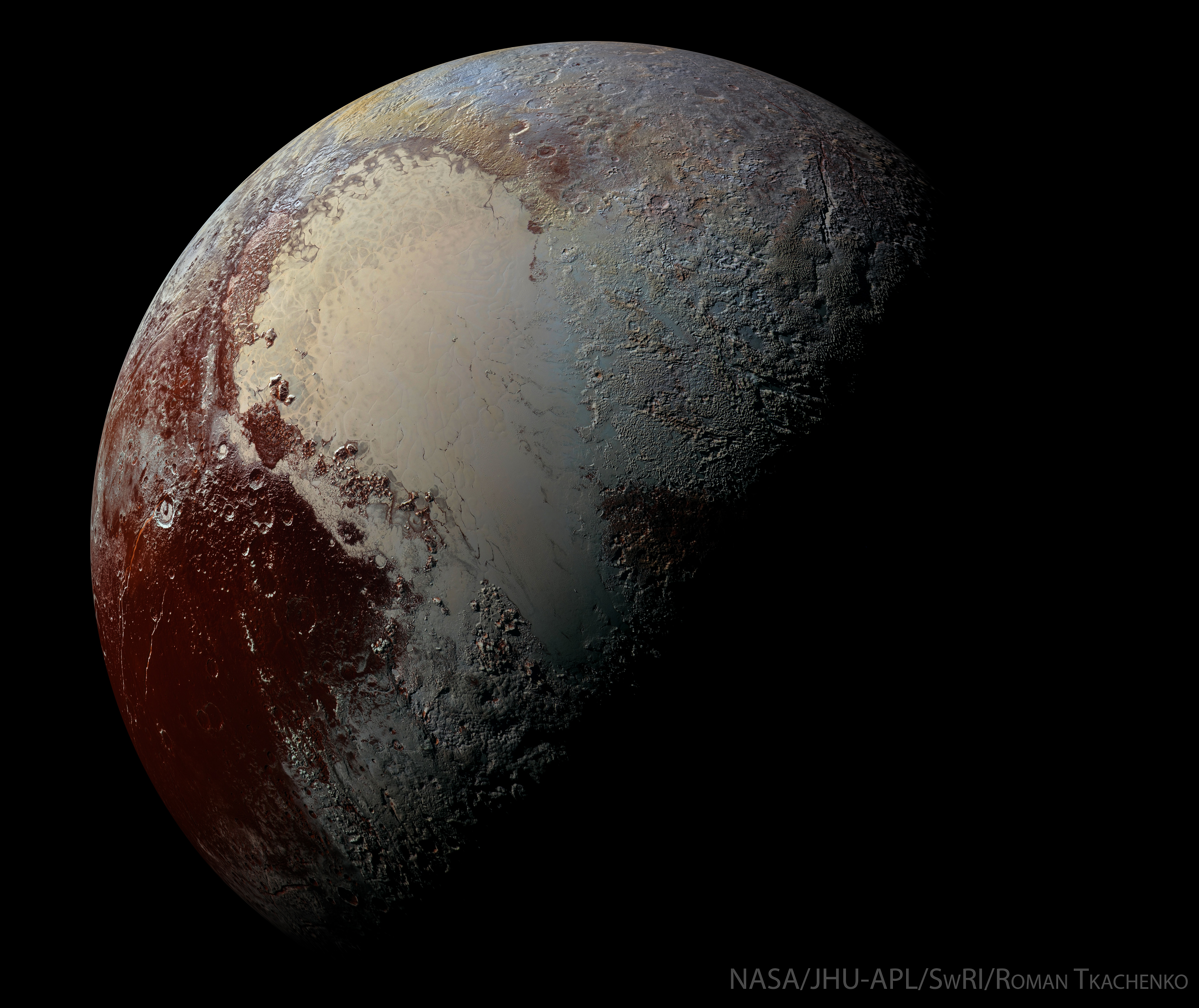 Simulated view of a half-phase Pluto